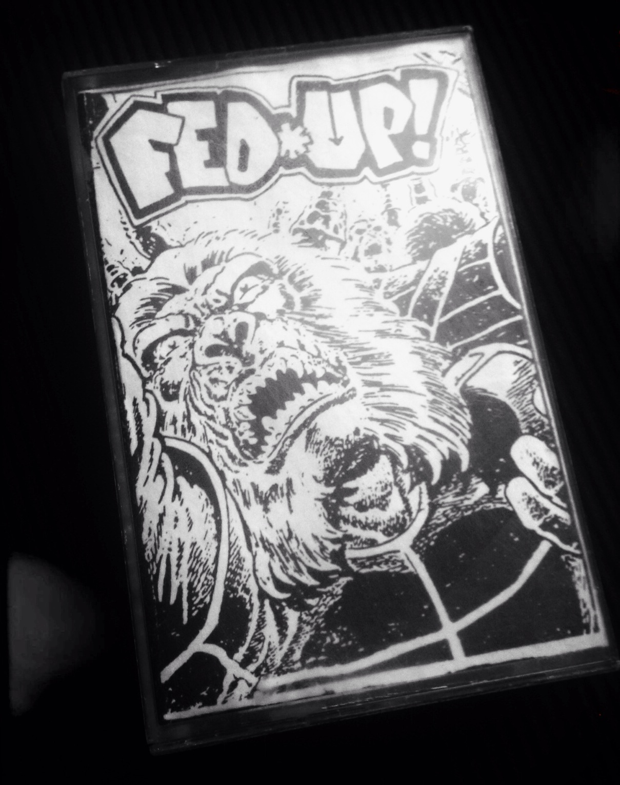 Fed Up! demo cassette from 1988.